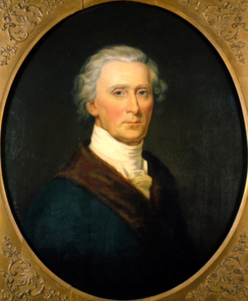 Charles Caroll by Michael Laty.